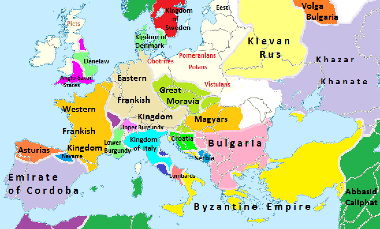 Map of Europe in 900, based on World Atlas, Berlin, 2011, page 58